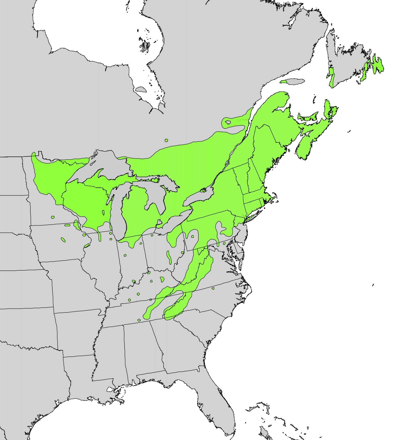 Range map of Betula alleghaniensis